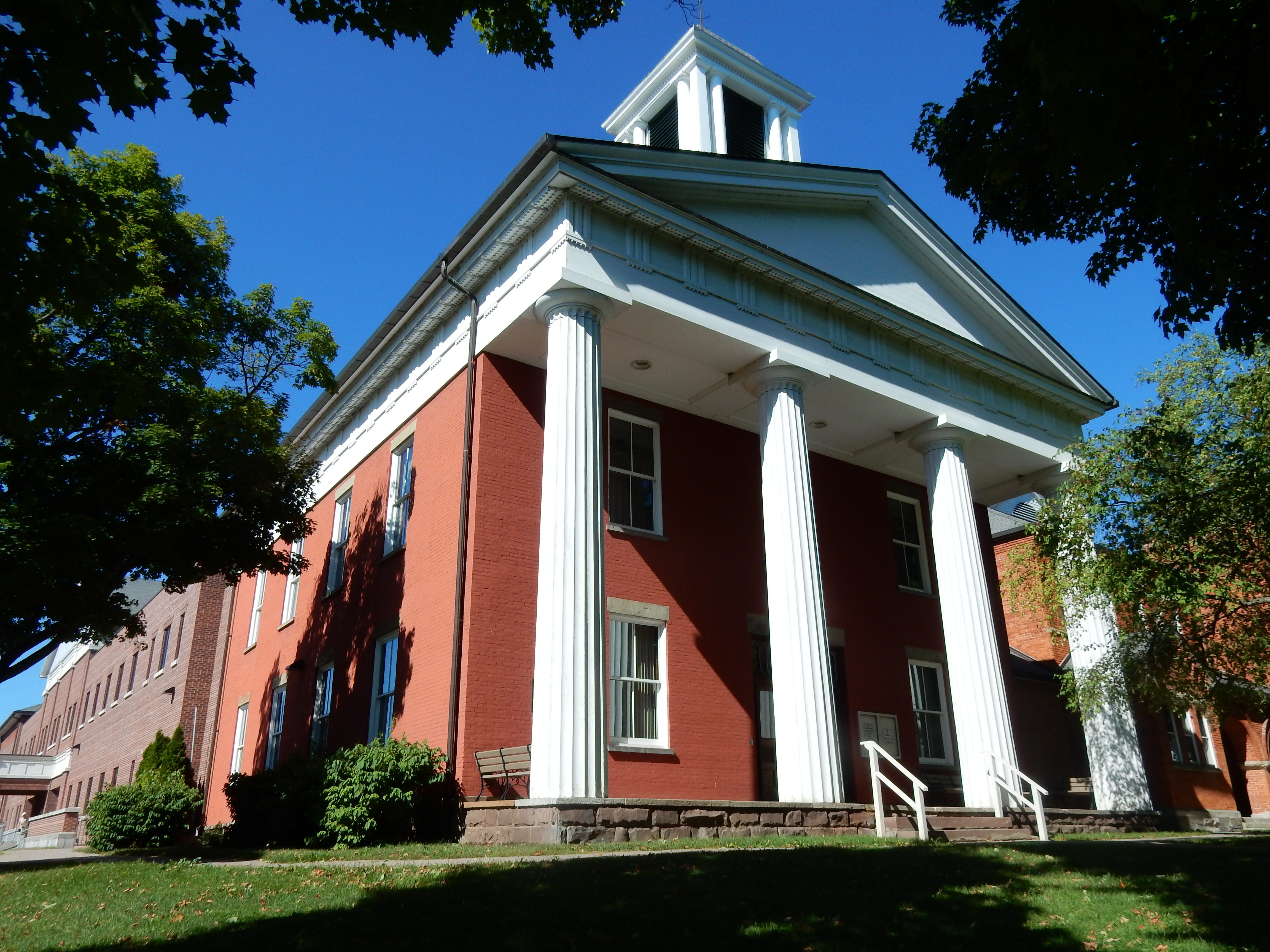 Yates County Courthouse, Penn Yan, New York. Yates County Courthouse Park District.